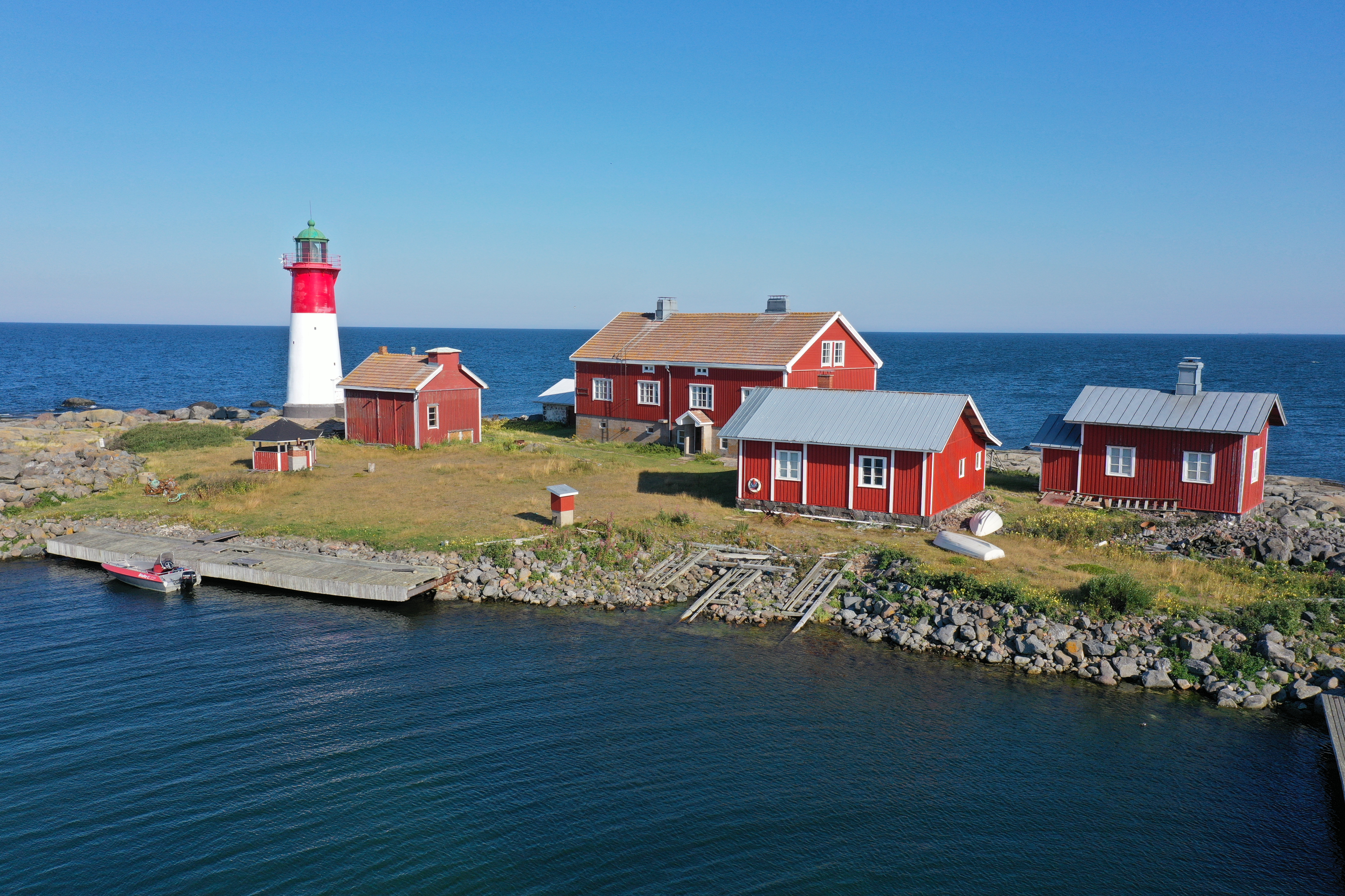 Strömmigsbådan lighthouse and buildings for lighthouse keepers on islet of Strömmingsbådan, Malax, Finland.